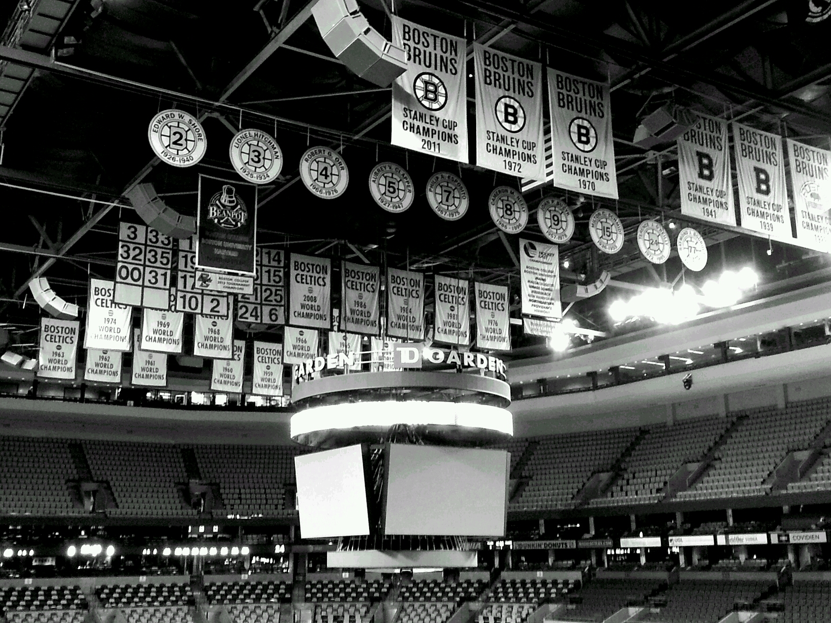 Not only do the Celtics have 17 championship banners hung way up in the rafters, but they also have 22 retired numbers. The most in the NBA. Along with Celtics banners, the Bruins have their six Stanley Cup banners hanging up along with 10 retired numbers. Not too shabby.